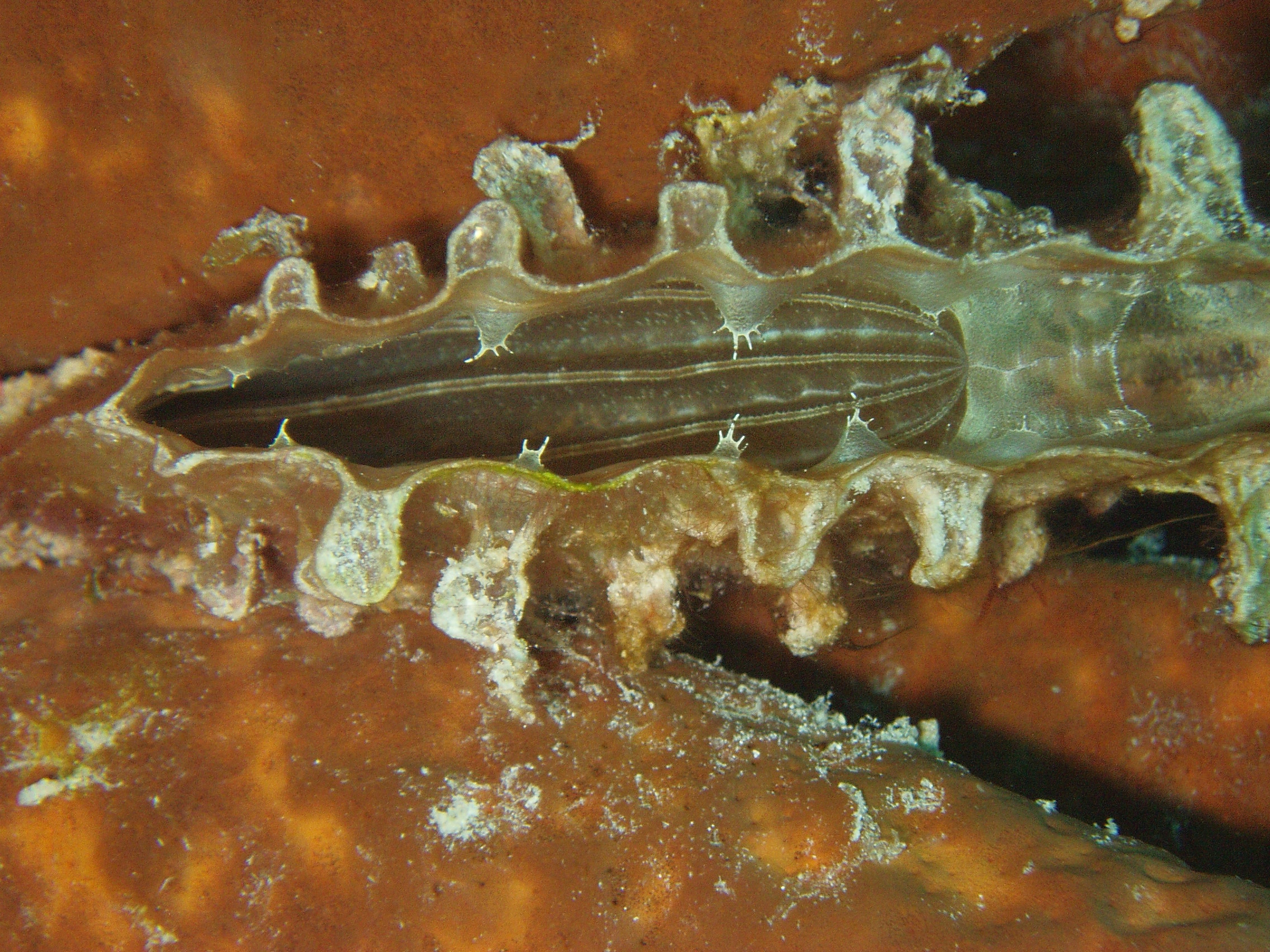 Pen shell (Pinna nobilis) Image ID: reef1089, NOAA's Coral Kingdom Collection Location: Coki Beach, St. Thomas, USVI